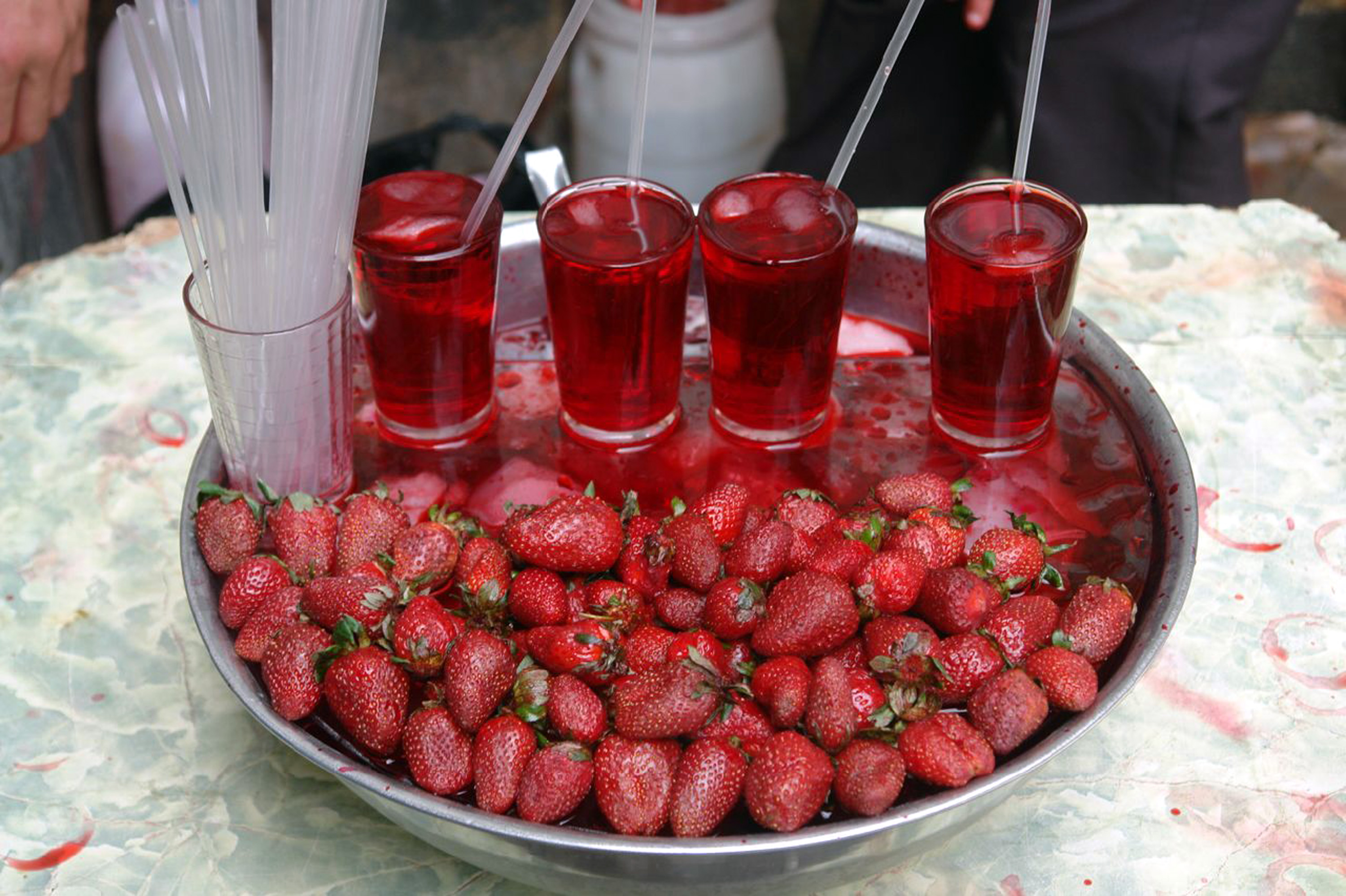 Cool, fresh-squeezed strawberry juice, Damascus, Syria